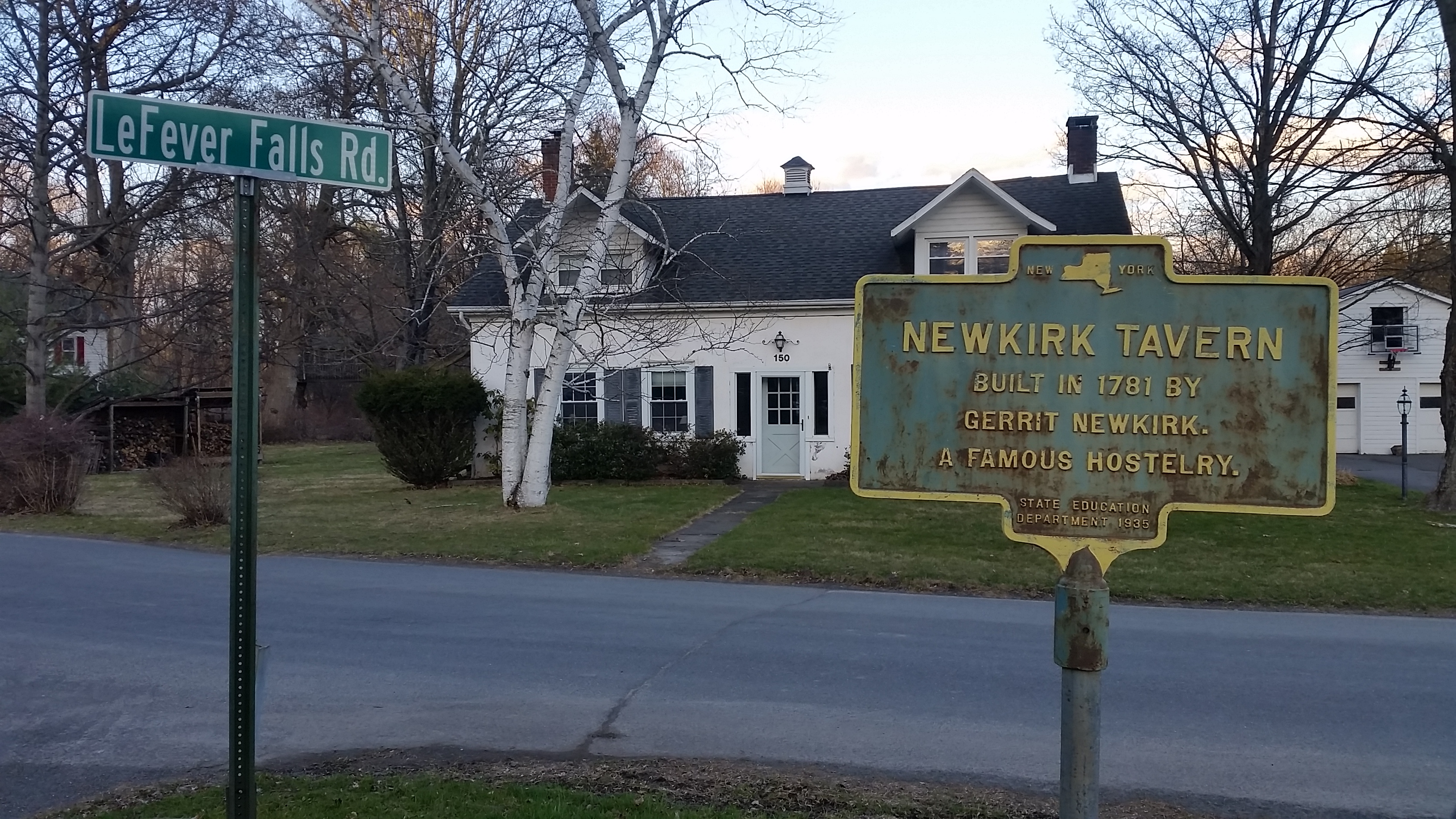 New York State historical marker (in Ulster County) for the Newkirk Tavern